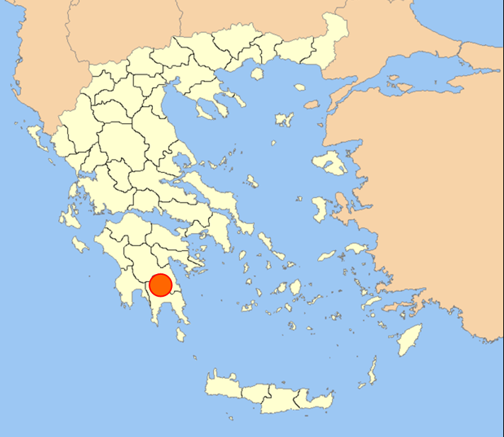 location of the Seven Sages in ancient Greece